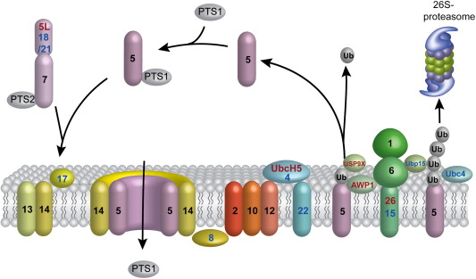 Composite model of peroxisomal matrix protein import.